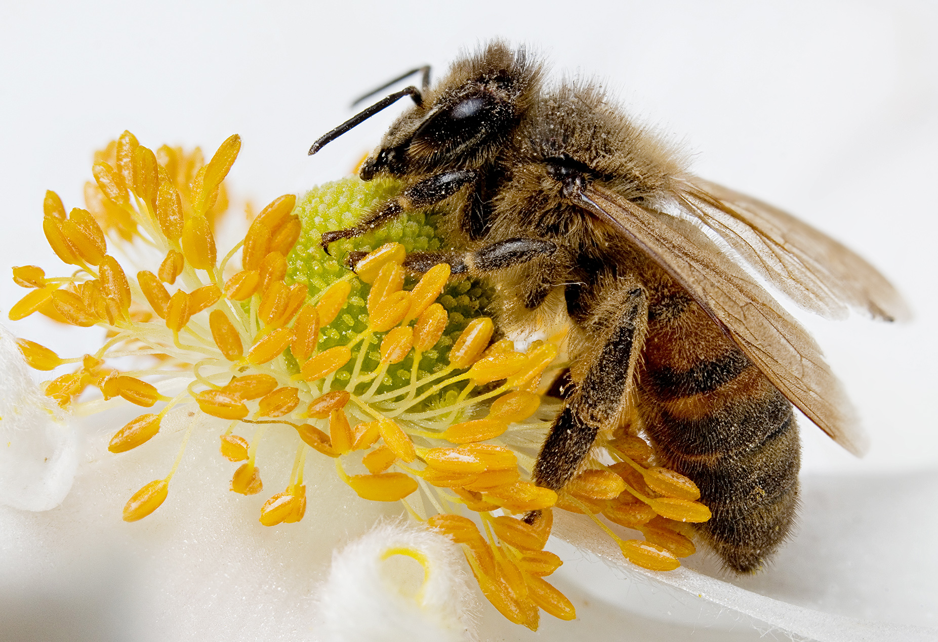 Common Honeybee (Apis mellifera) Camera data Camera Canon EOS 400D Lens Canon EF 70-200mm f4L w/ 12mm + 20mm + 36mm extension tube Flash Shoot through umbrella left Focal length 95 mm Aperture f/11 Exposure time 1/160 s Sensivity ISO 100